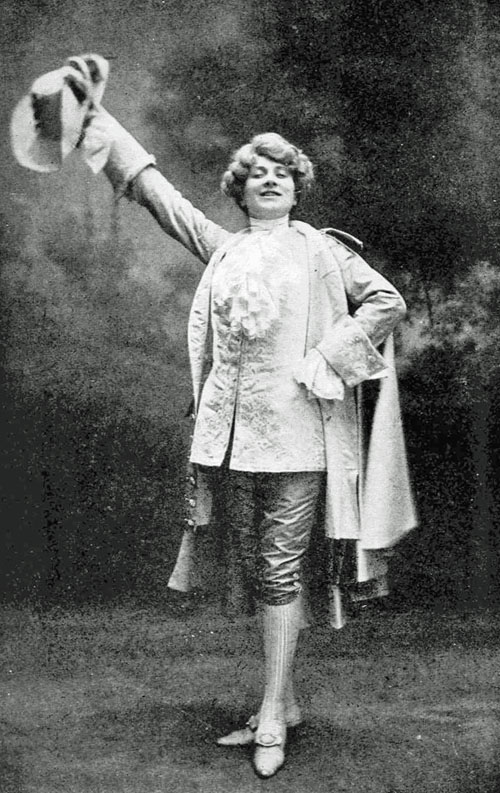 Mary Garden as Cherubin